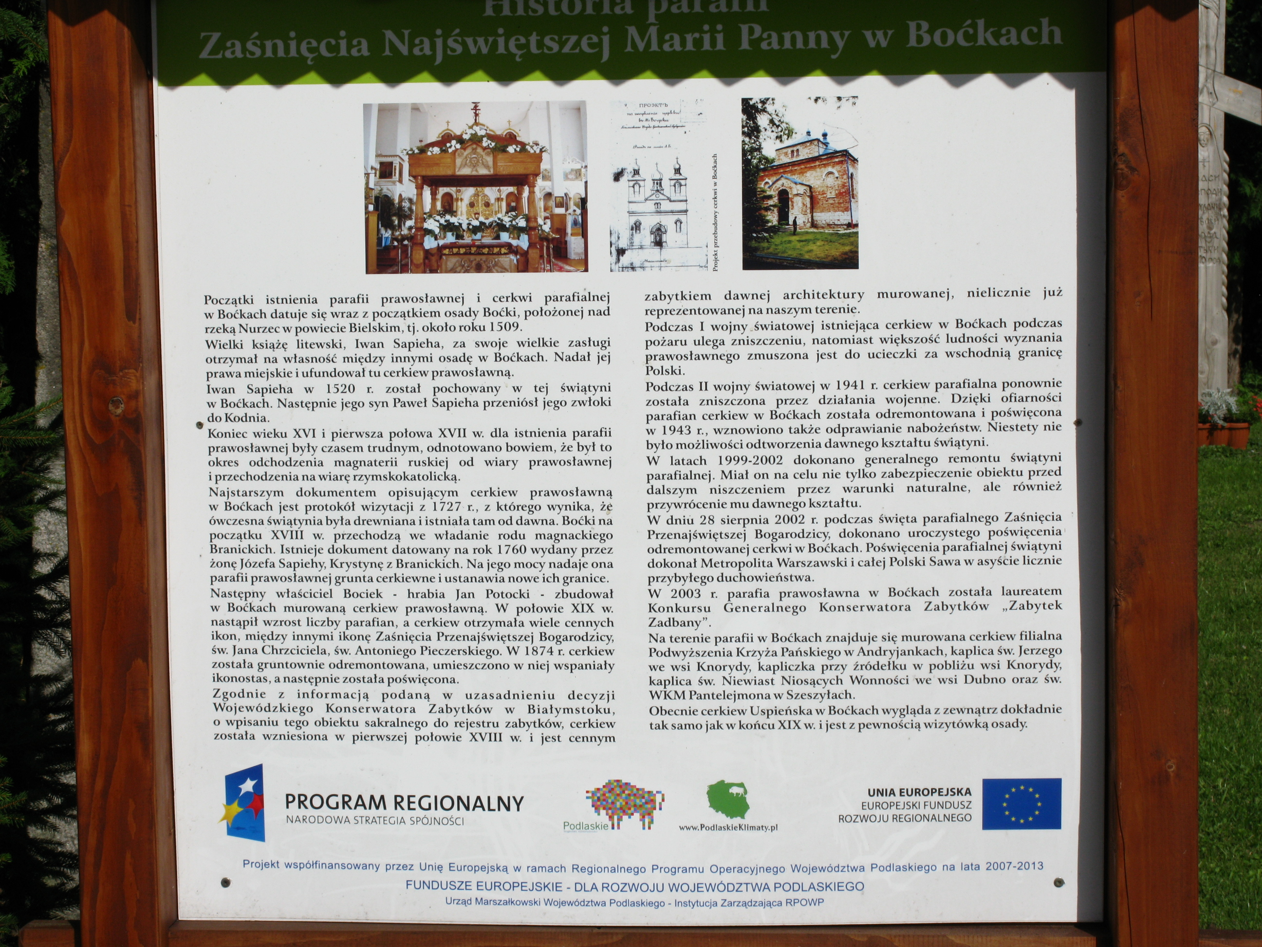 Church of the Dormition in Boćki (Podlaskie, Poland).